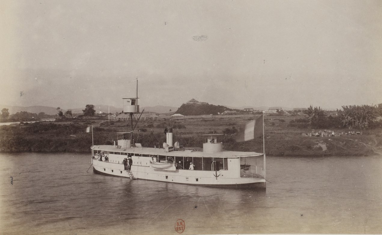 The gunboat Mutine in 1890 during the Franco-Chinese Conference in Mong Cai (Tonkin).